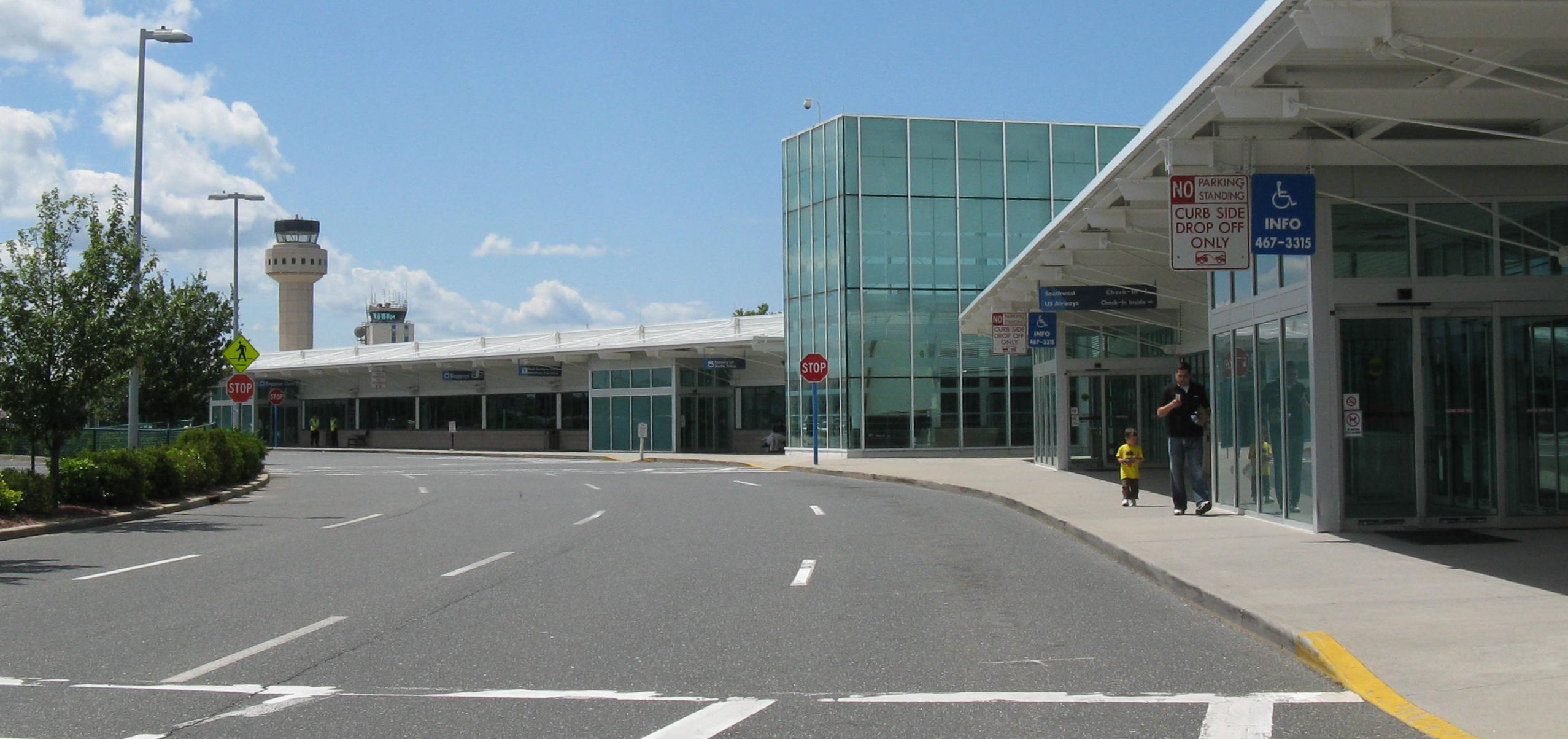 Terminal of Long Island MacArthur Airport